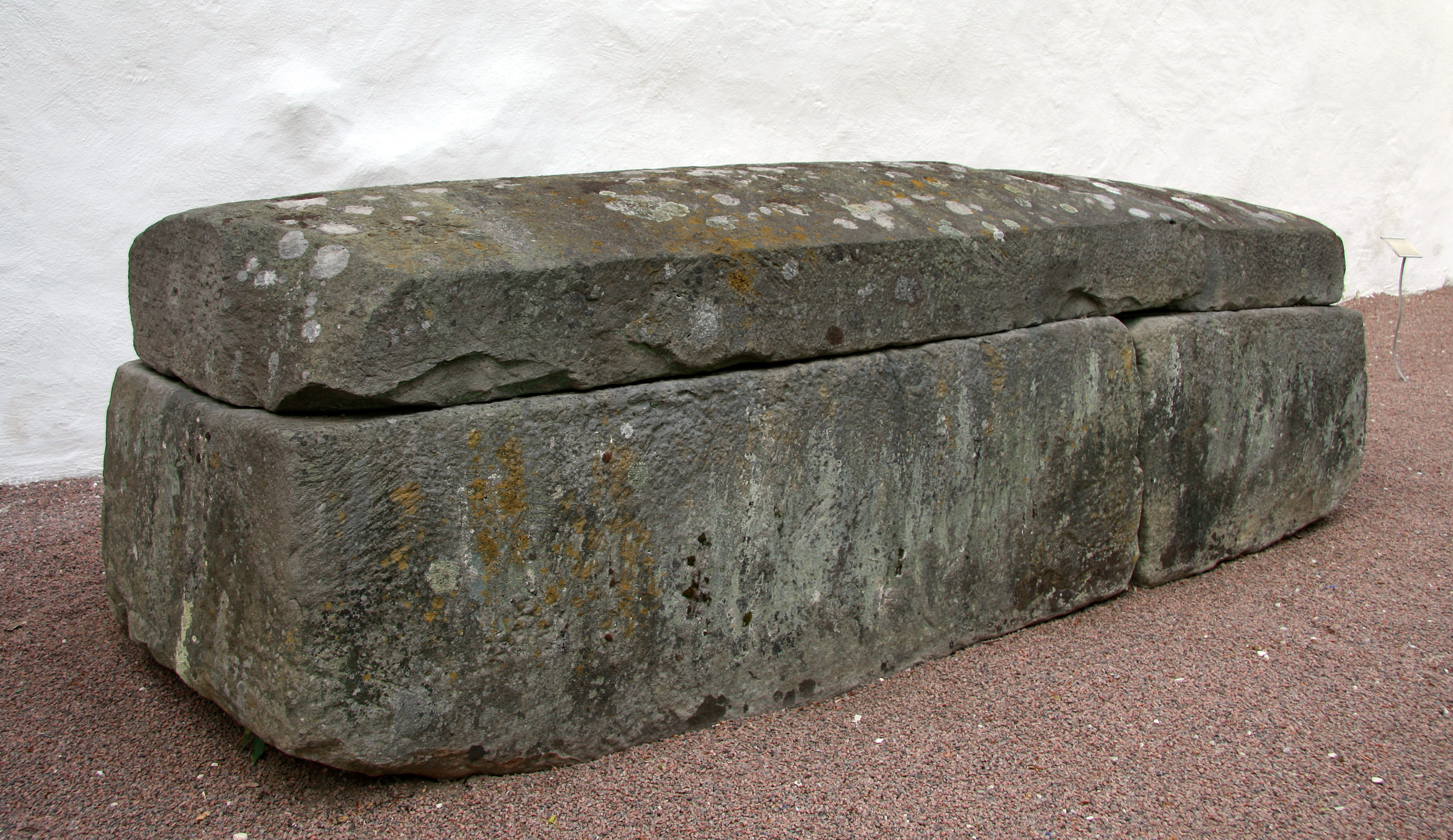 Stone coffin (early middle ages) by Västra Sallerups kyrka in Eslöv, Sweden